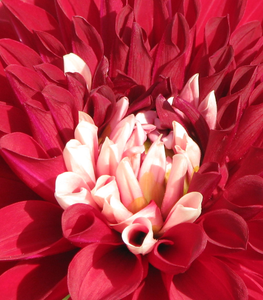 Double dahlia.